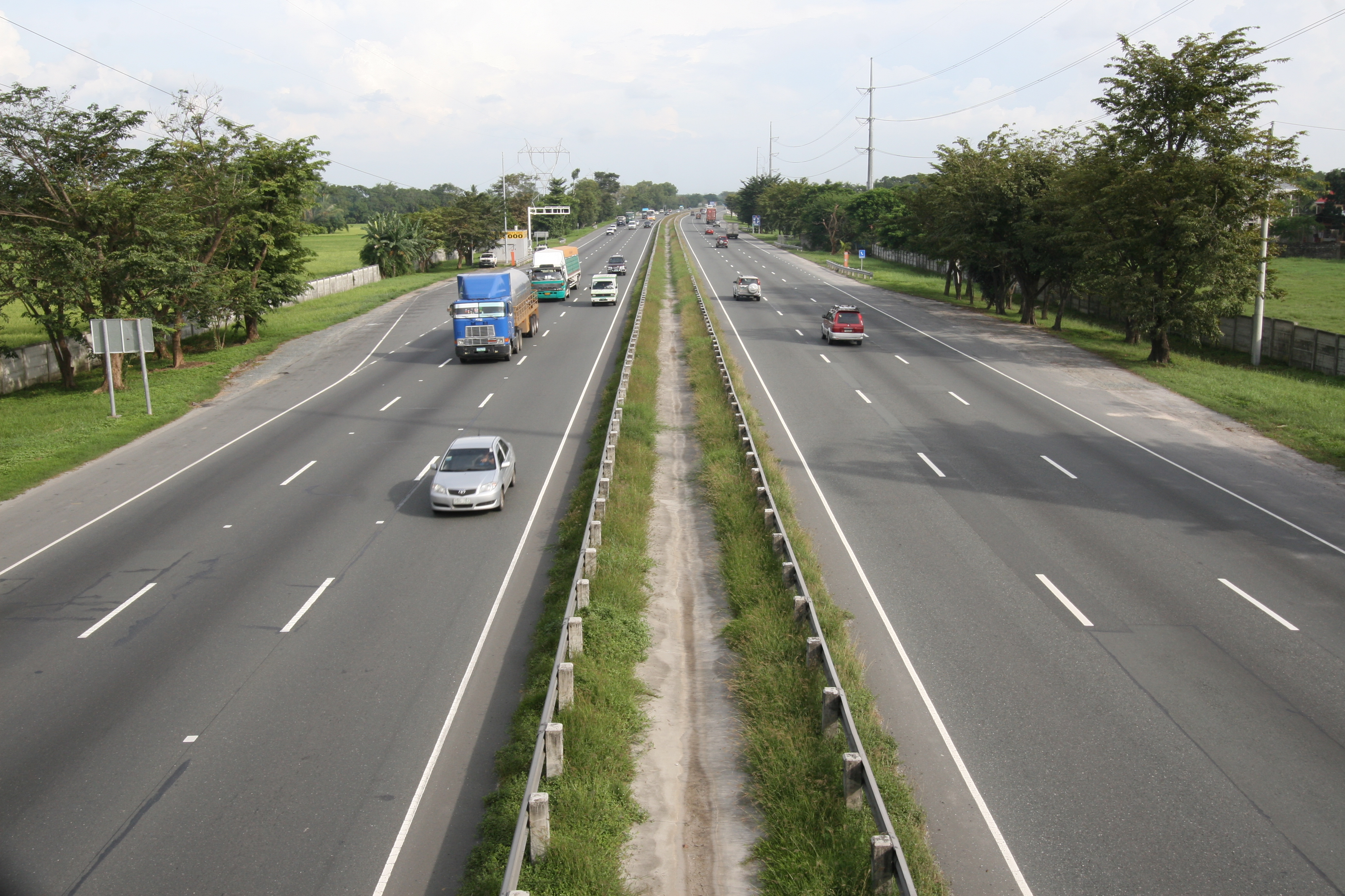 View From NLEX Overpass, Bulacan, Philippines